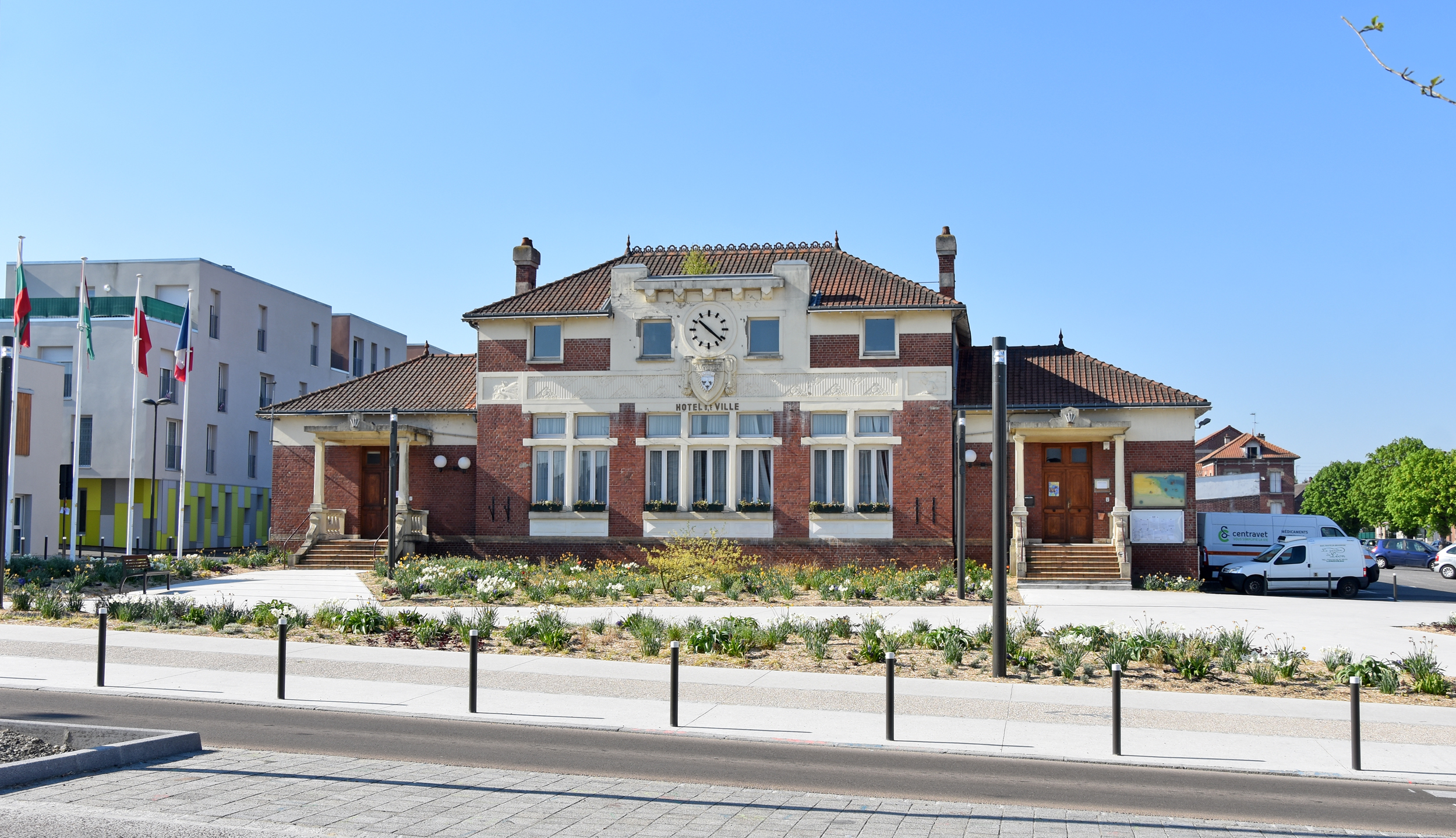 The Town Hall of Longueau after the restoration of the storefront